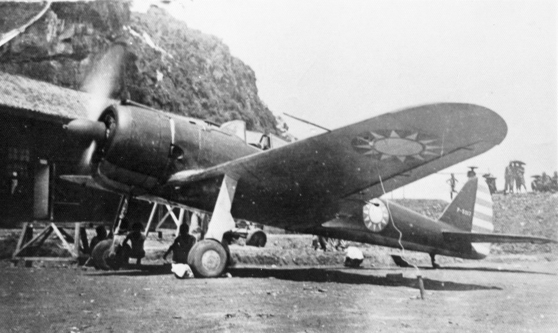 Nakajima Ki-43 Hayabusa fighter, taken as war booty by the Chinese Nationalists and issued to the 6th Group of the Chinese Nationalist Air Force, runs up before a flight.